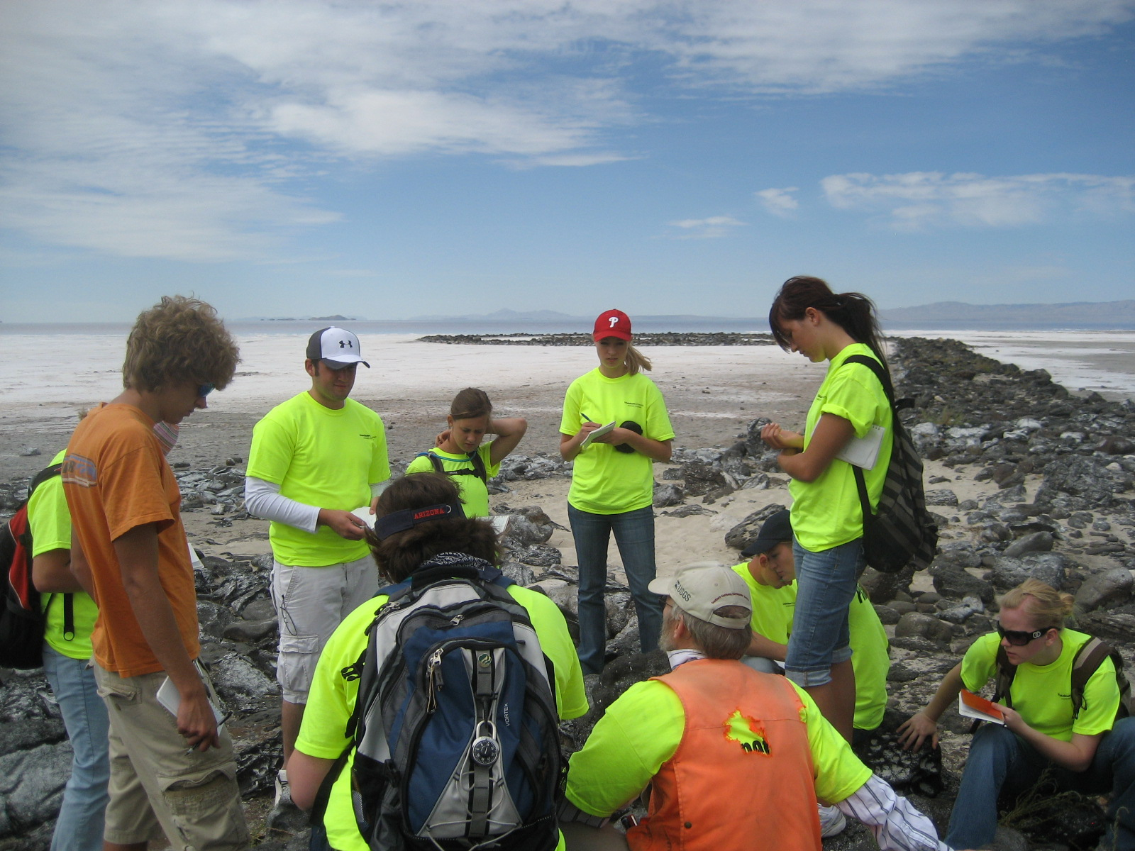 Honors students from Utah State University, as part of the HONR 1360 class, visit the piece of art known as the Spiral Jetty in the Great Salt Lake.